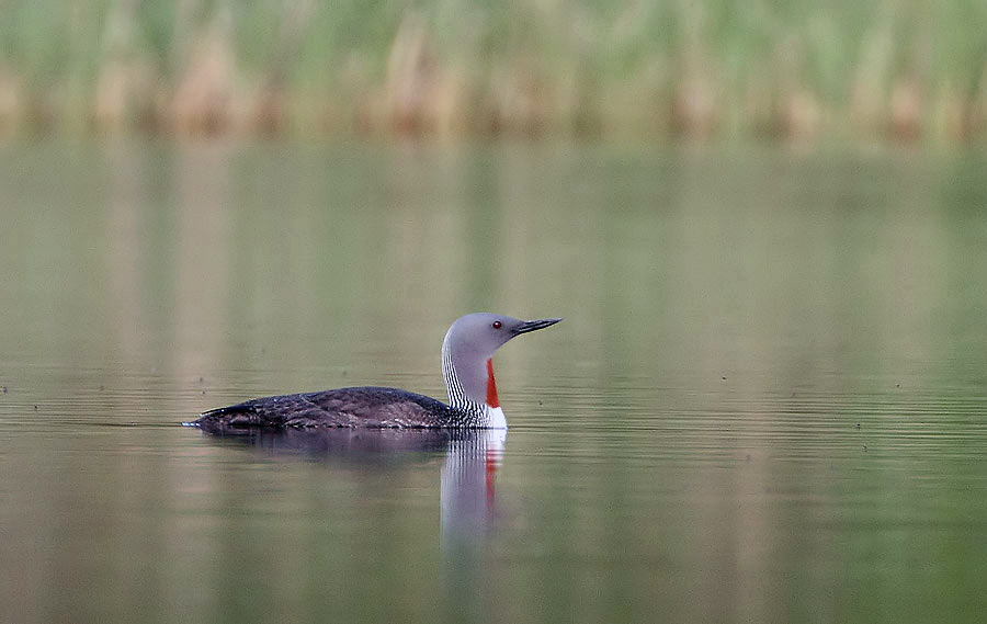 These beautiful birds breed on small, remote hill lochans. On the west coast and the islands they commute to the sea to fish but in the eastern Highlands they feed on inland lochs -both large & small. This image was taken on a Speyside (feeding) Lochan.